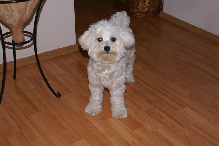 tia2-bichon havanez